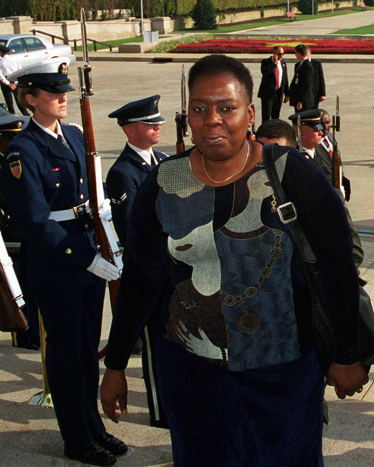 South African Deputy Defense Minister Nozizwe Madlala-Routledge (left) through an honor cordon and into the Pentagon on Oct. 16, 2000.